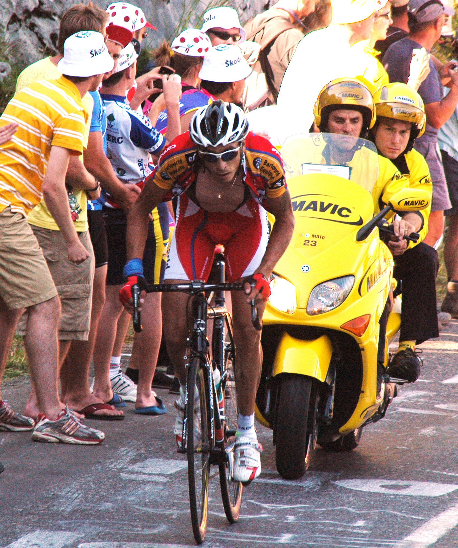 Mauricio Soler on the climb of Col de la Colombière at stage 7 of the Tour de France 2007.